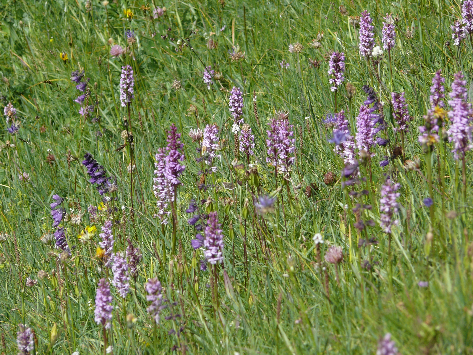 Gymnadenia conopsea, Puez-Geisler-Gruppe, Italy